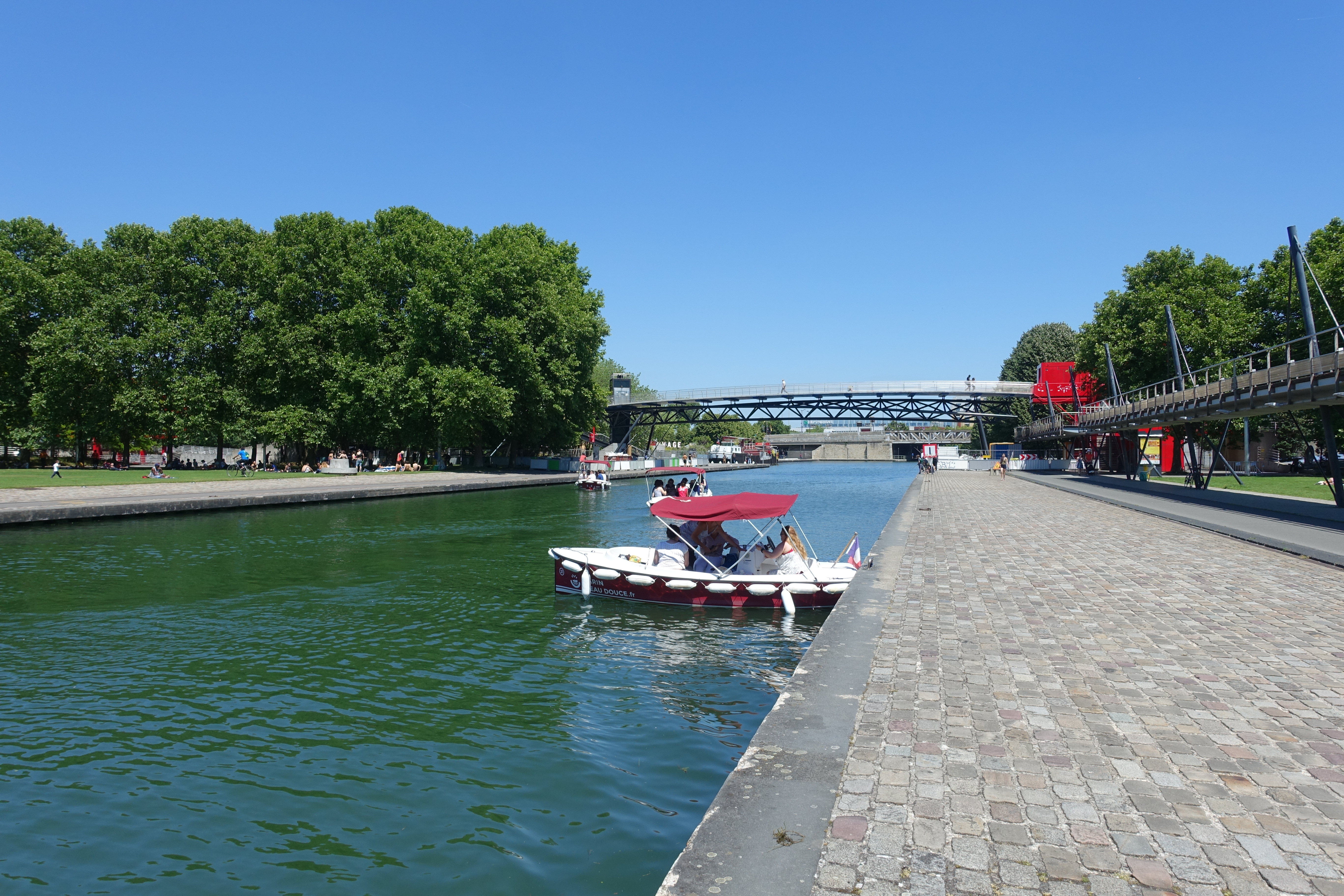 The Parc de la Villette, the third-largest park in Paris, 55.5 hectares in area, located at the northeastern edge of the city in the 19th arrondissement. The park houses one of the largest concentration of cultural venues in Paris, including the Cité des Sciences et de l'Industrie (City of Science and Industry, Europe's largest science museum), three major concert venues, and the prestigious Conservatoire de Paris.